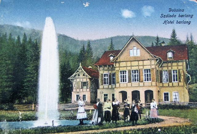 „Cave Hotel“ beside Dobšinská Ice Cave in old postcard